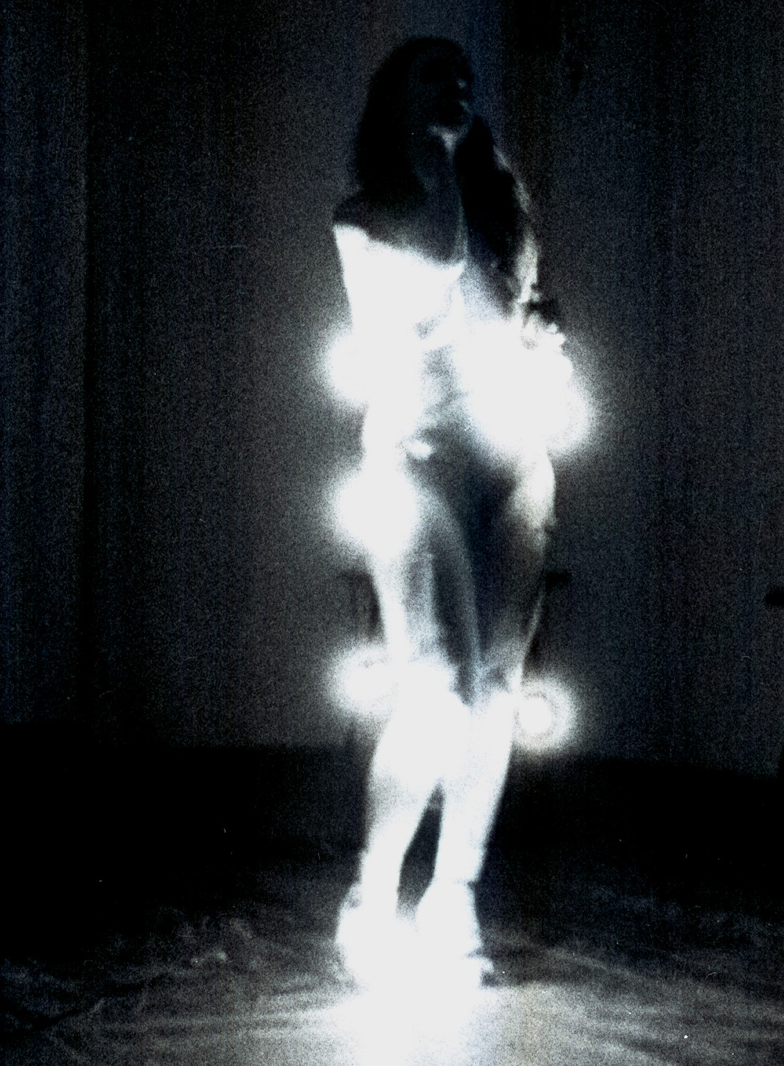 Ewa Partum, Stupid Woman, 1981